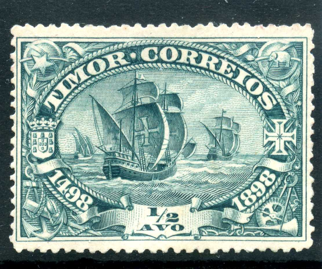 Postage stamp of Timor, 1898. 400th anniversary of Vasco da Gama’s discovery of the route to India. Scott #45